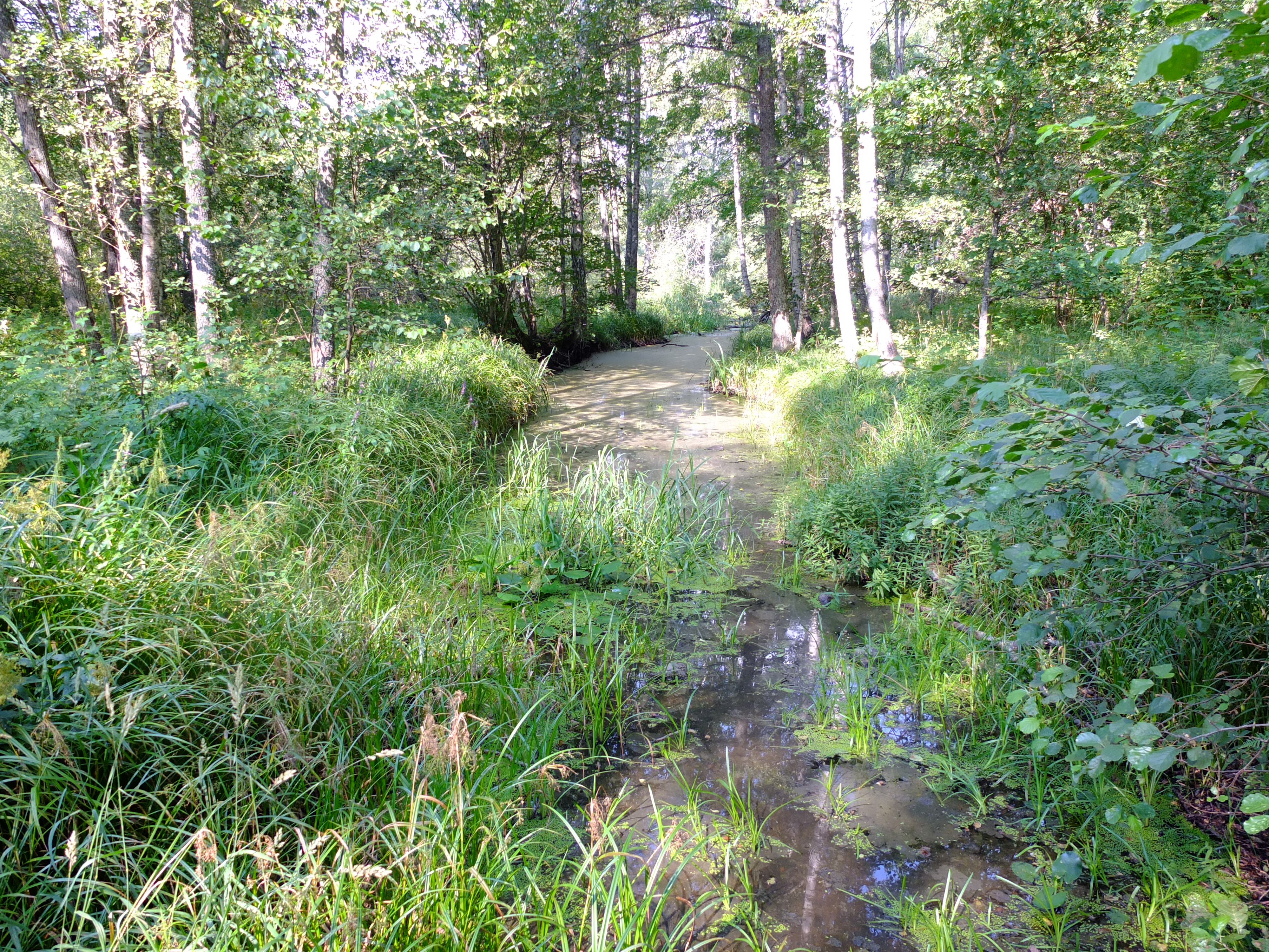 Karl IX:s canal at Skjulsta, Eskilstuna, Sweden